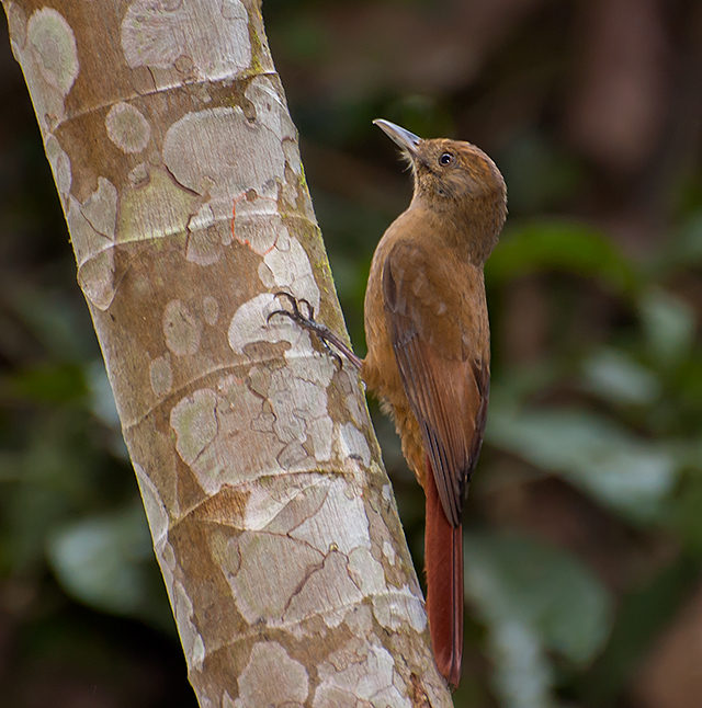 Plain-winged woodcreeper (Dendrocincla turdina)